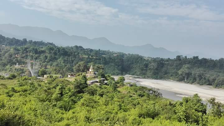 Ramjanaki Temple, Ramghatdham